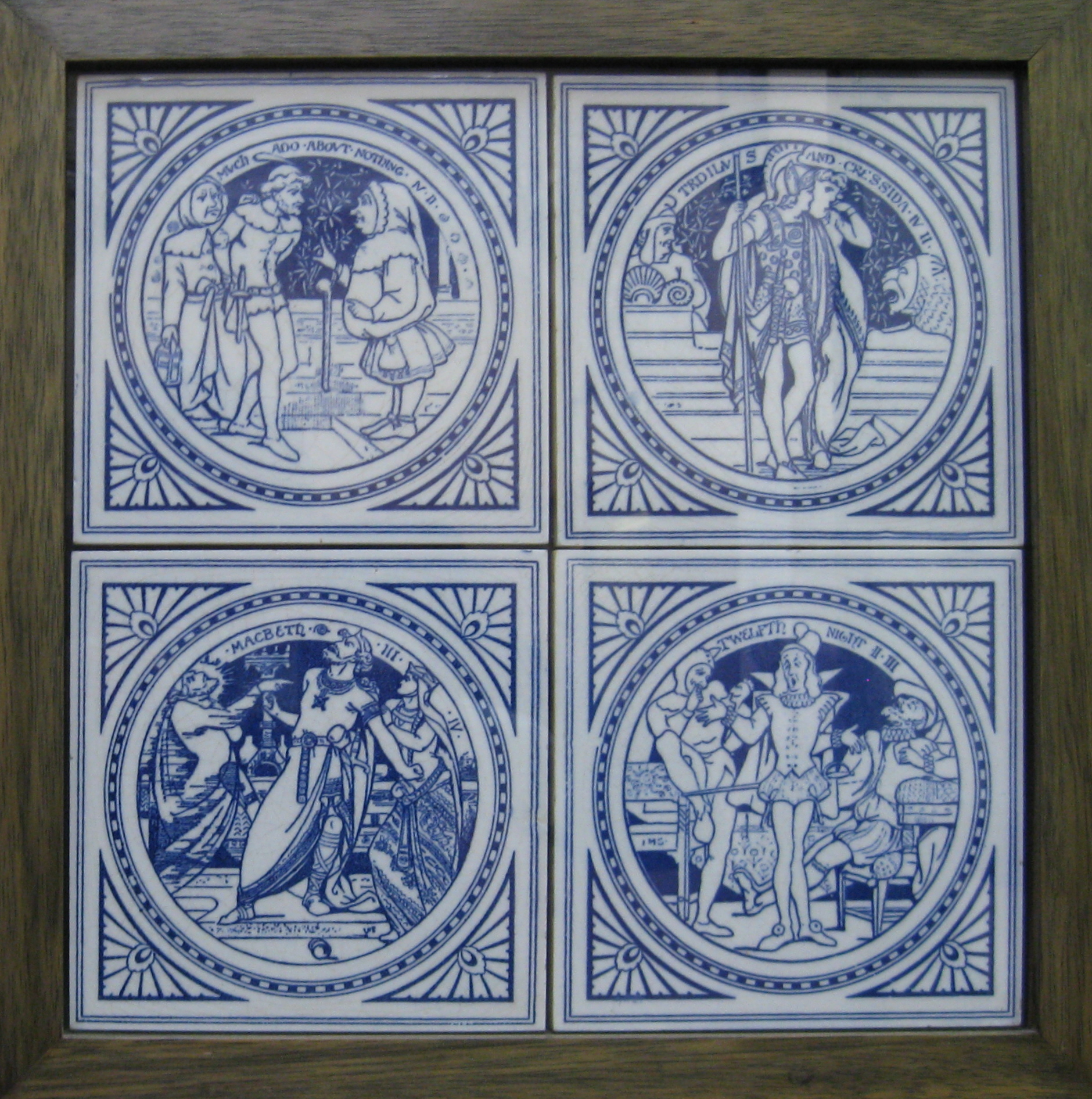 Minton Tiles illustrating scenes from Shakespeare plays circa 1872 Mintons China Works, Stoke. Design by J. Moyr Smith. On display in the Birmingham Museum and Art Gallery, UK